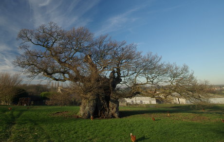 The Bowthorpe Oak The famous centuries-old oak tree at Bowthorpe Park Farm near Manthorpe south of Bourne.